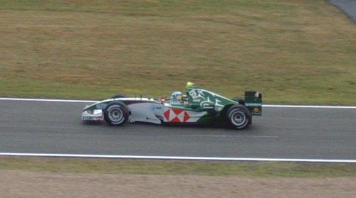 Björn Wirdheim driving the Jaguar R5 (AND NOT A R4)